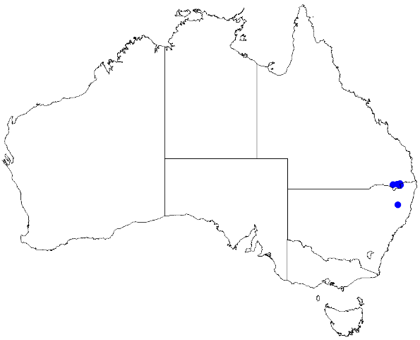 Boronia repanda downloaded from Australasian Virtual Herbarium 10 April 2019 using This download included all the environmental overlay fields and ALA's data checking fields including "cultivated / escapee", "outside expert range for species", "latitude is negated", "coordinates are transposed", "taxon misidentified", "habitat incorrect for species", and "suspected outlier" (711 fields). Deleting occurrences for which any of the above were true, 46 specimens with coordinates were deleted.